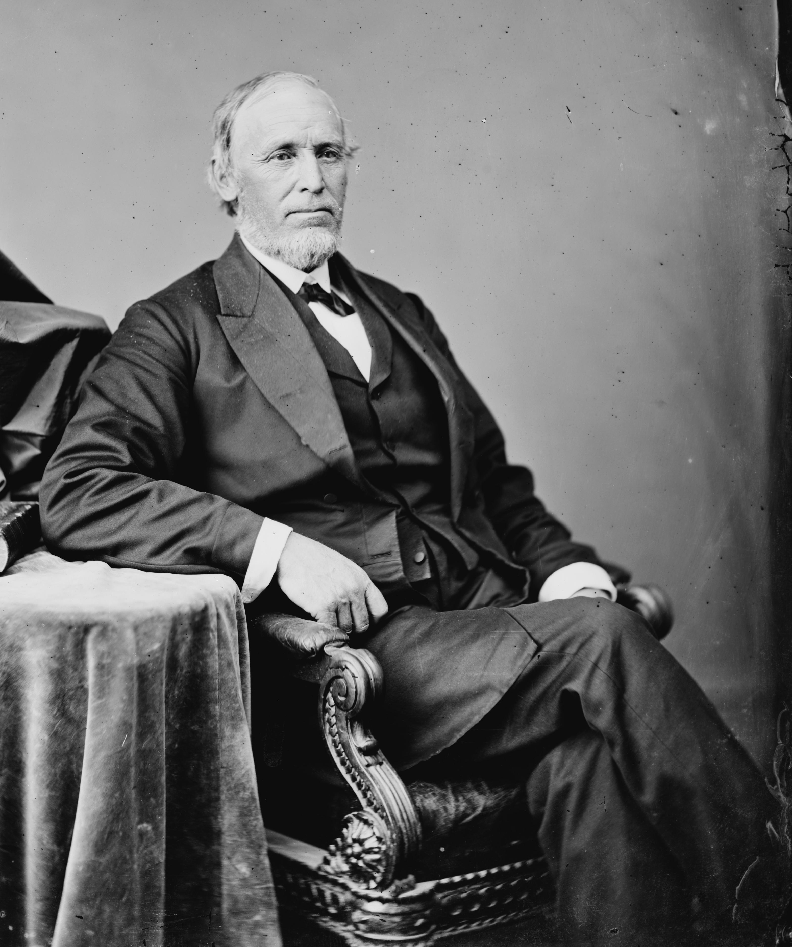 Lewis Tillman. Library of Congress description: "Hon. Lewis Tillman of Tenn."